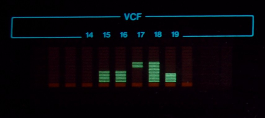 Photo by Rwintle. Detail of the voltage-controlled filter fluorescent displays of the Akai AX80 synthesizer.